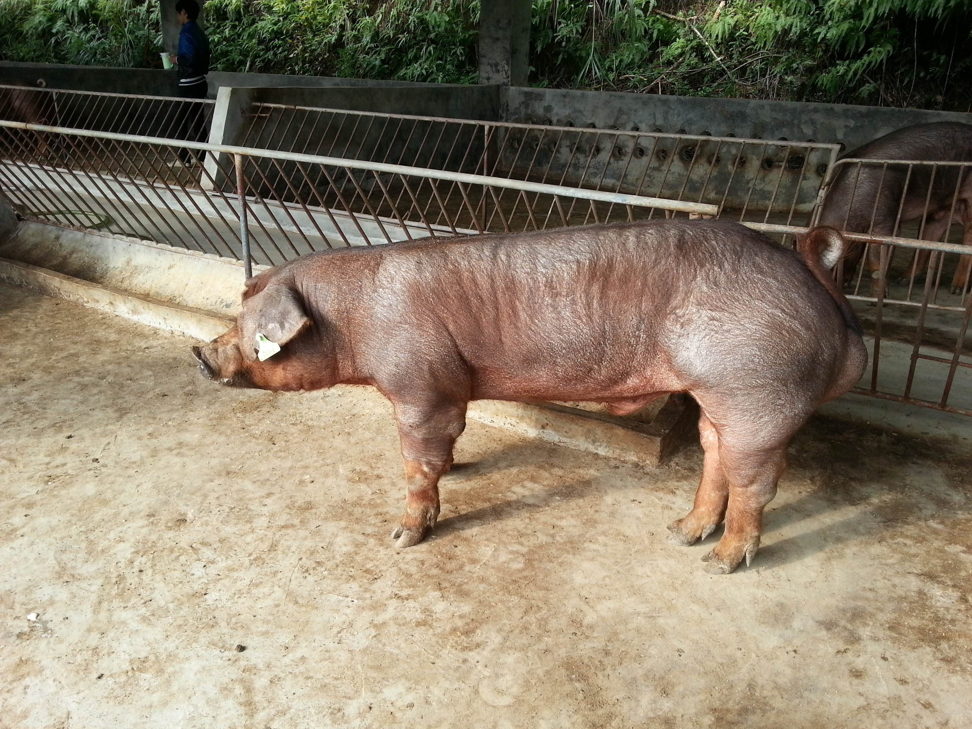 Duroc boar at 7 months age中文（中国大陆）: 7月龄大的杜洛克公猪